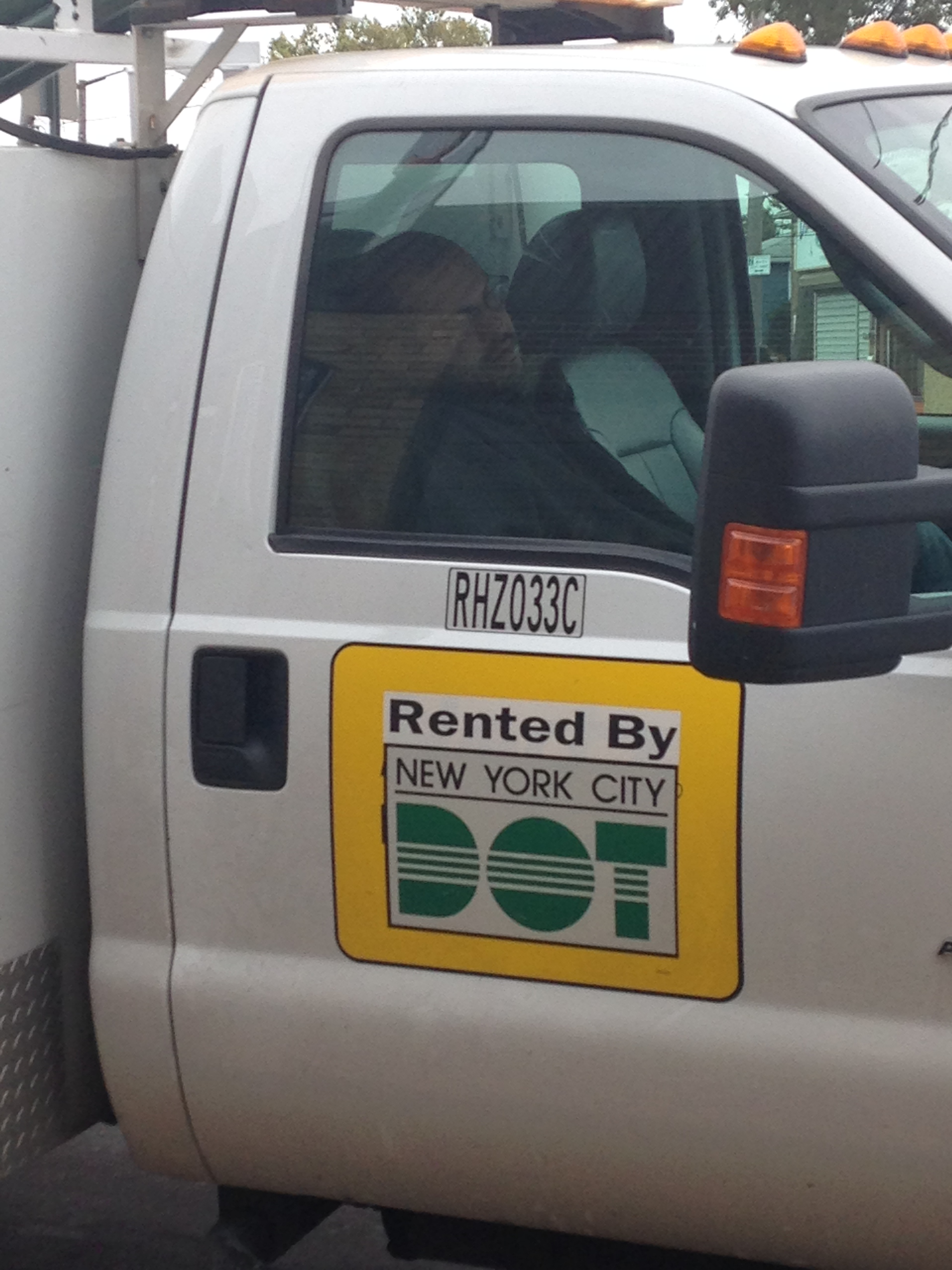 This guy's partner was out working on a bus stop on Hylan Ave while he took a quick nap. Way to go NYC DOT!